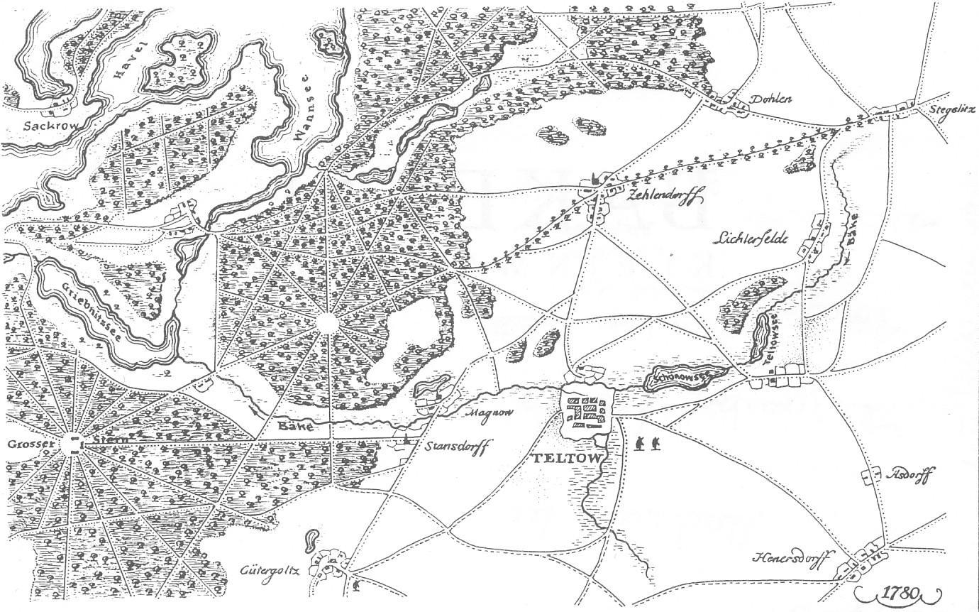 Historical map with the complete stream Bäke, 1780. Changed Grafik of: "Topographische Karte von Berlin-Potsdam-Spandau nach Kupferstich von Klockhoff Amsterdam 1780 (»CARTE TOPOGRAPHIQUE des enivirons de BERLIN, POTSDAM & SPANDOW«"